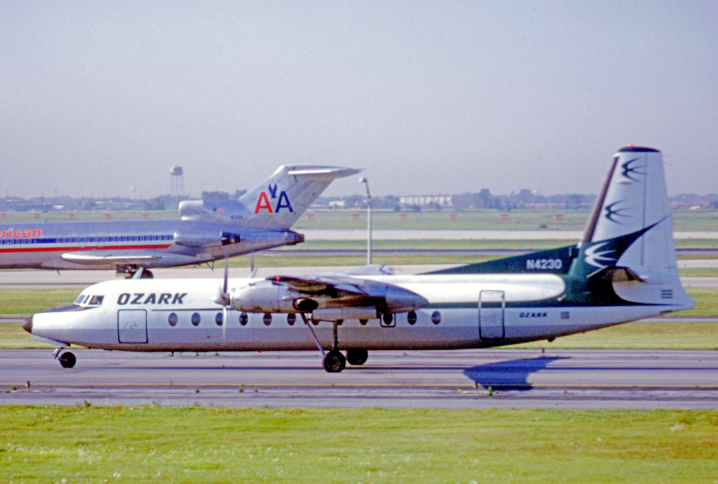 Fairchild-Hiller FH-227B N4230 of Ozark Air Lines at Chicago O'Hare in 1975